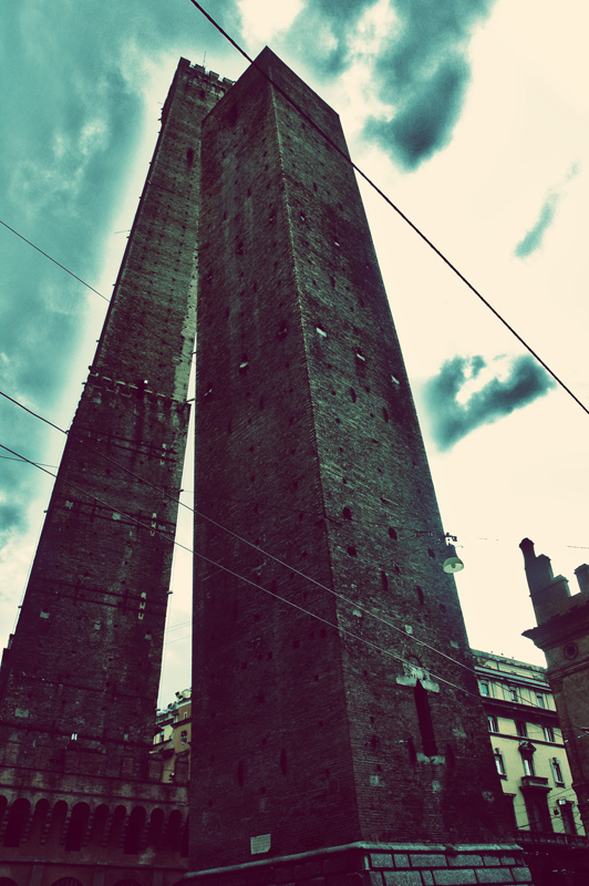 The two main towers of Bologna, Italy. The taller one is called "Asinelli", the shorter, leaning one is called "Garisenda".towering